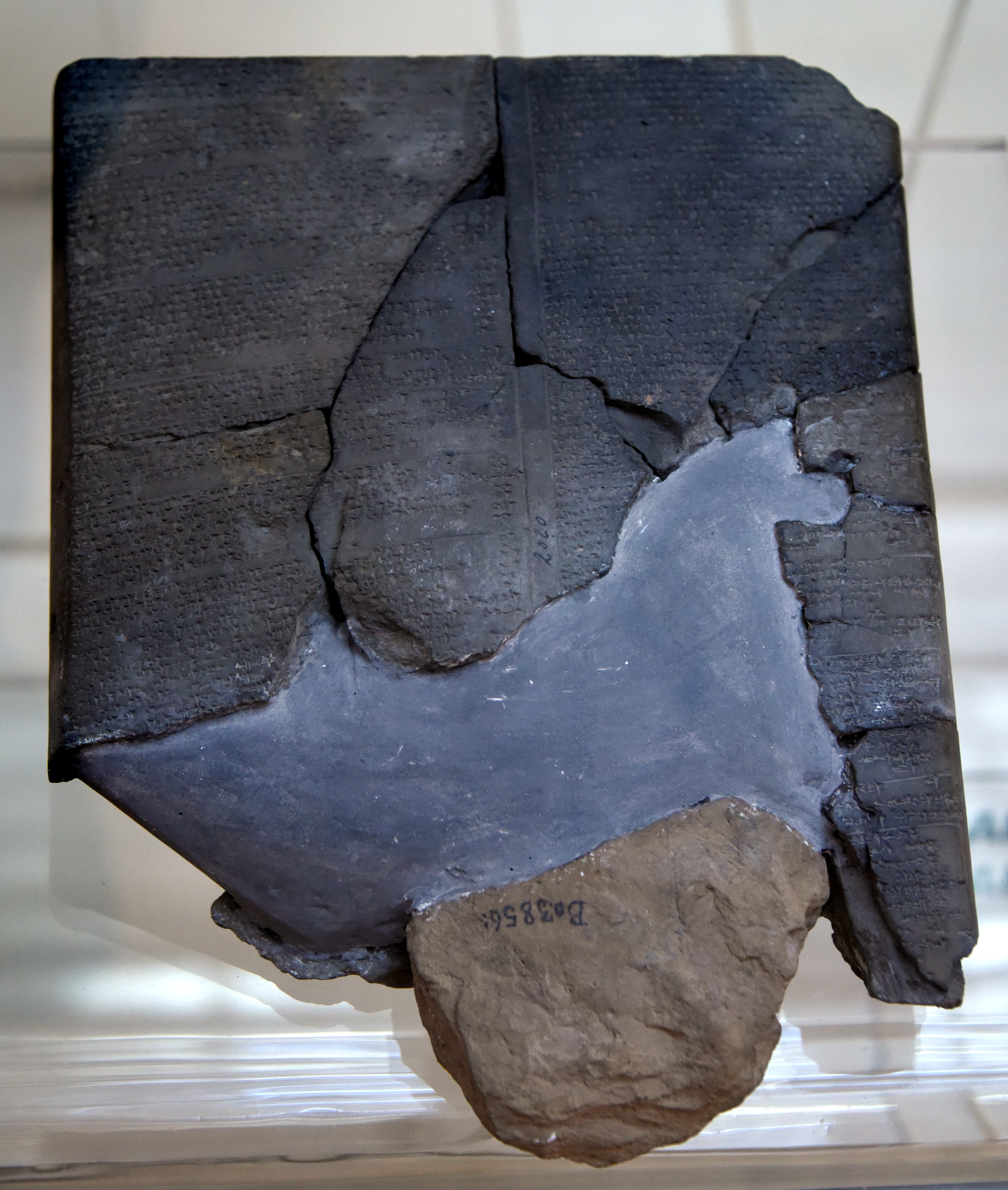 The treaty between the Hittite king Suppiluliuma (Šuppiluliuma) I and Hukkana. Clay tablet. 13th century BC (original tablet written in the 14th century BC) From Hattusa, Turkey. Istanbul Archaeological Museum.